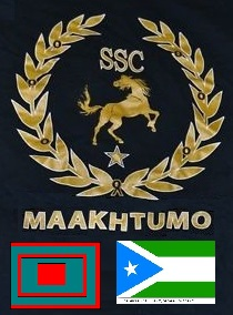 beelaha SSC insignia